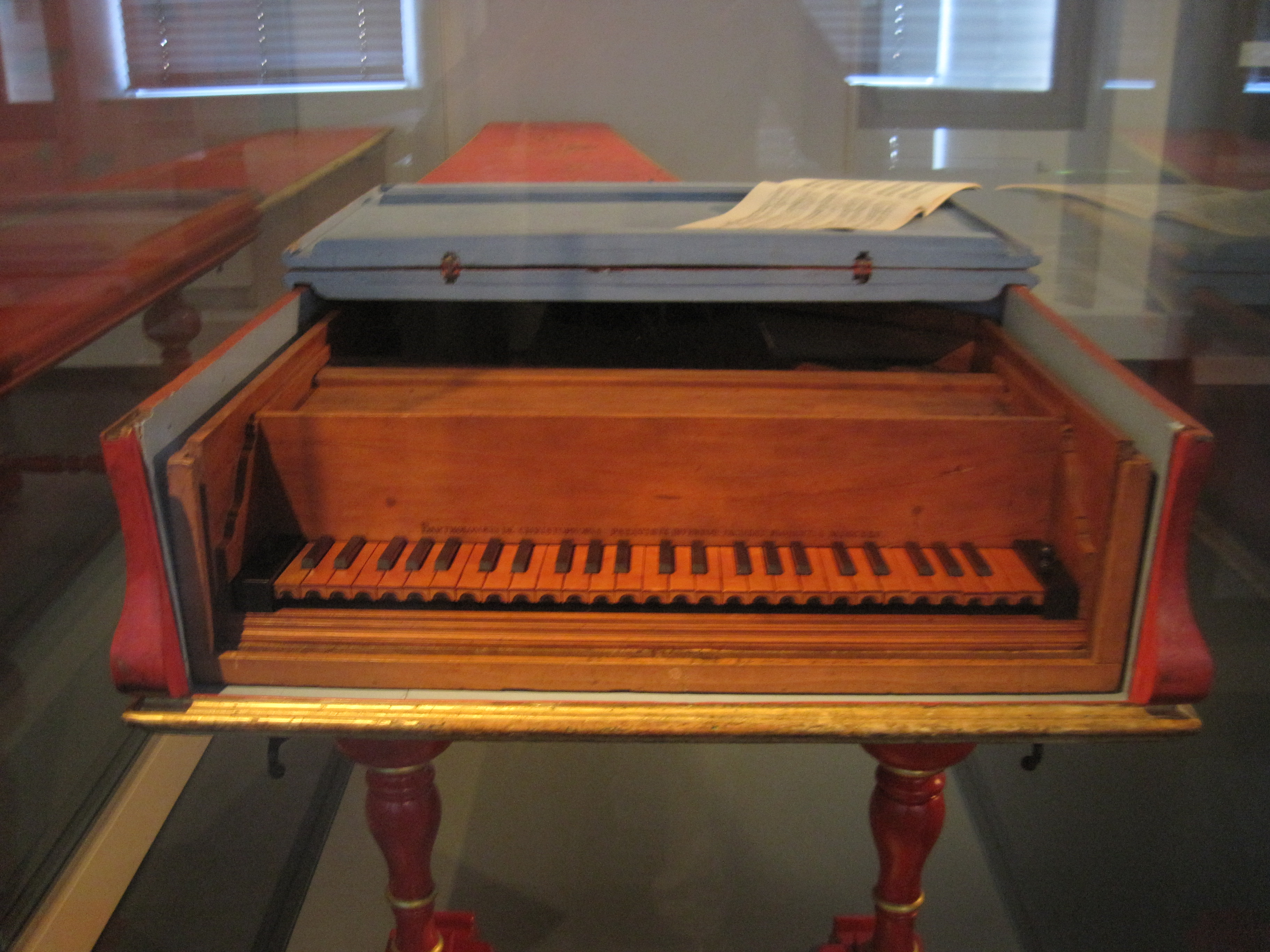 1726 piano by Bartolomeo Cristofori, in the Musical Instrument Museum in Leipzig, Germany